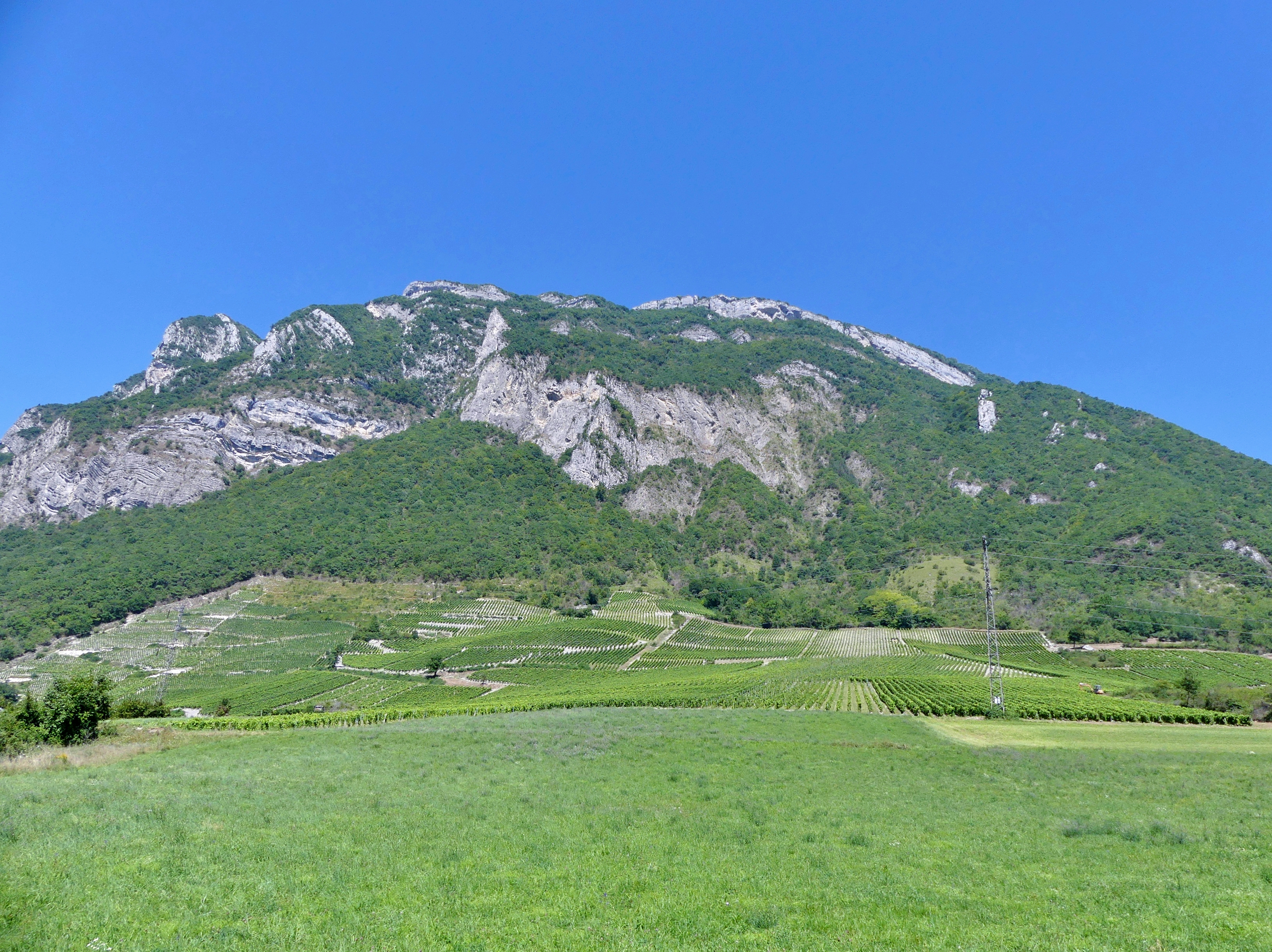 Sight of the very Southern side of the Bauges mountain range, with some vineyards visible at the background, in Montmélian, Savoie, France.